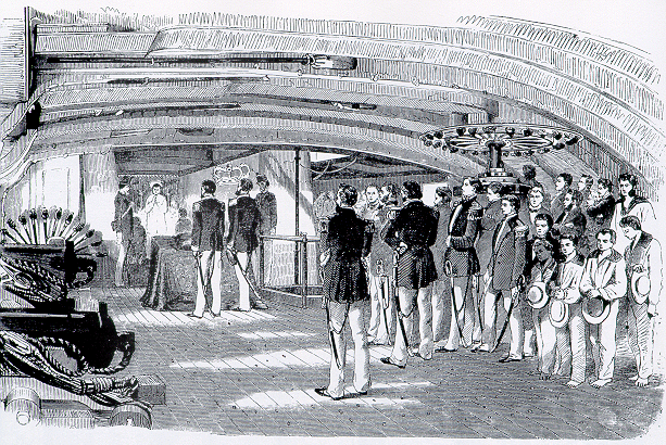 "Te Deum" Mass on board the Novara, 1857, officiated by Father von Marochini.